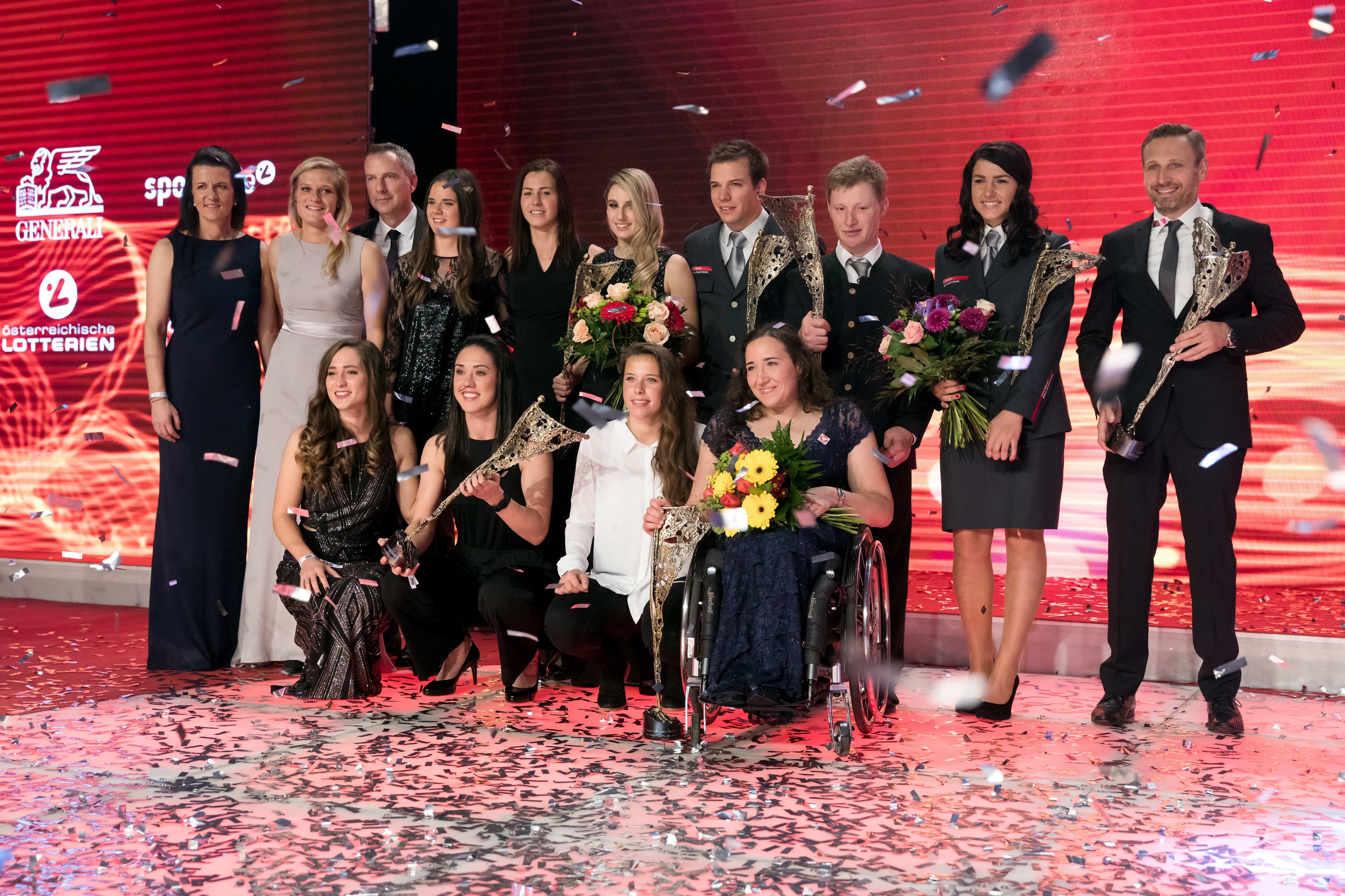 The Austrian Sports Personalities of the Year 2017 (Marx Halle, Sankt Marx, Vienna, Austria).